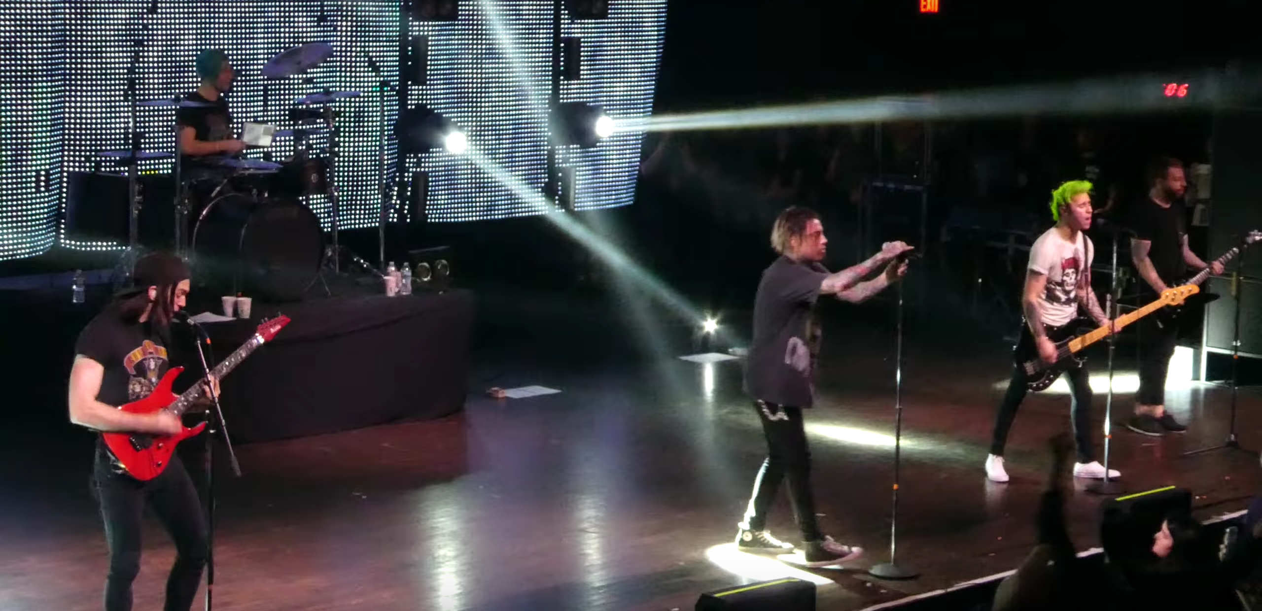 Rock band Falling in Reverse live in Fillmore, Philadelphia, Pennsylvania on January 28, 2017. Full Band Shot.